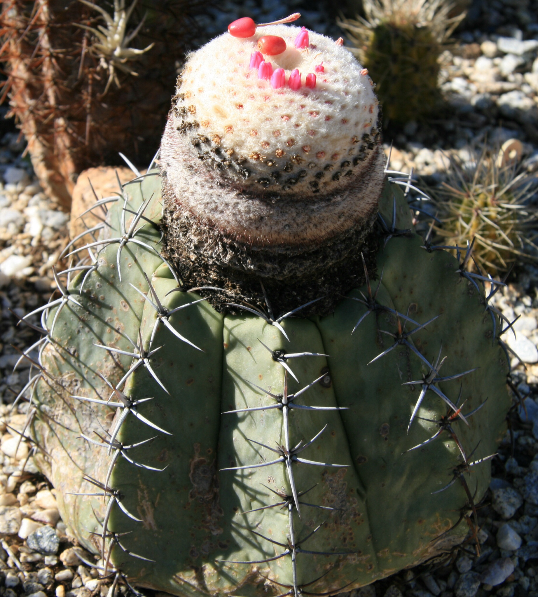 With typical white cephalium, plant from type habitat, C Bahia, Brasil